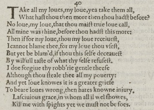 Sonnet 40 in the 1609 Quarto of Shakespeare's sonnets